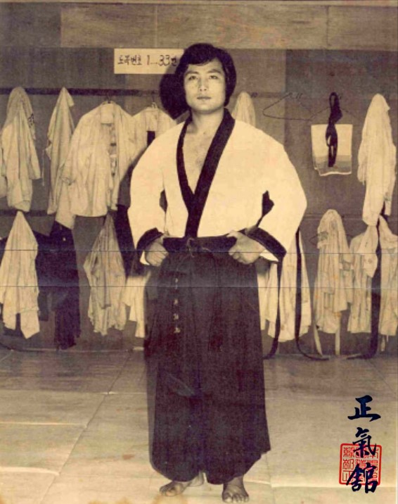 GM Lim, Hyun Soo at the JUNGKIKWAN in 1976